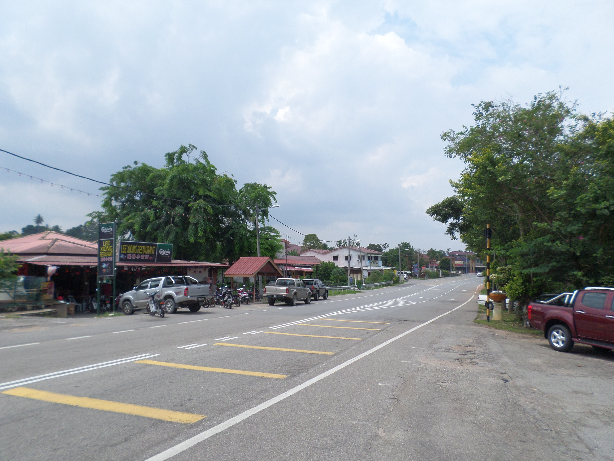 Machap Baru, Alor Gajah, Melaka, MalaysiaBahasa Melayu: Machap Baru, Alor Gajah, Melaka, Malaysia